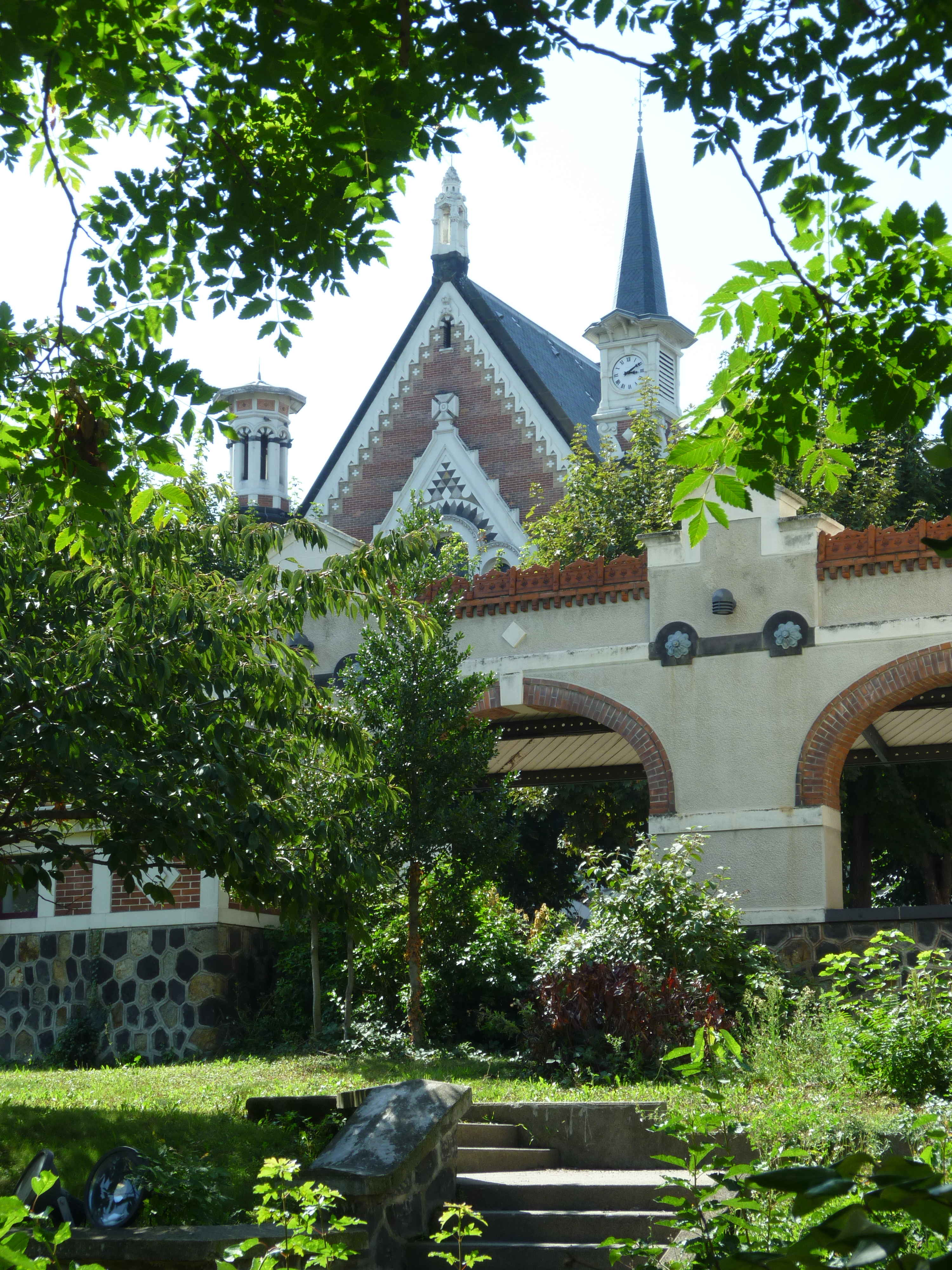 Joan of Arc High School in Clermont-Ferrand, France. Historical Monument.